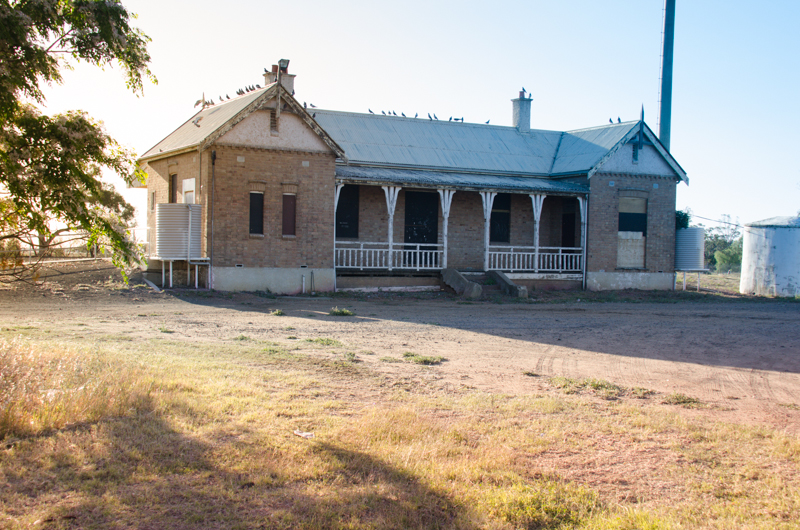 The historic railway station in town of Coonamble in the Central Western Plains of NSW. The station is the terminus of the Coonamble Branch line which runs from Dubbo.